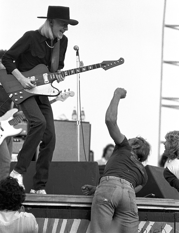 Johnny Winter. Woodstock Reunion, Parr Meadows, Ridge, NY.